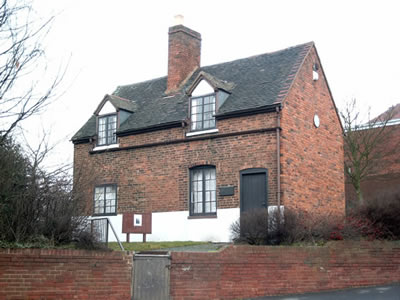 Bishop Asbury Cottage, Newton Road, Grove Vale, West Bromwich Bishop Asbury Cottage, Newton Road, Grove Vale, West Bromwich